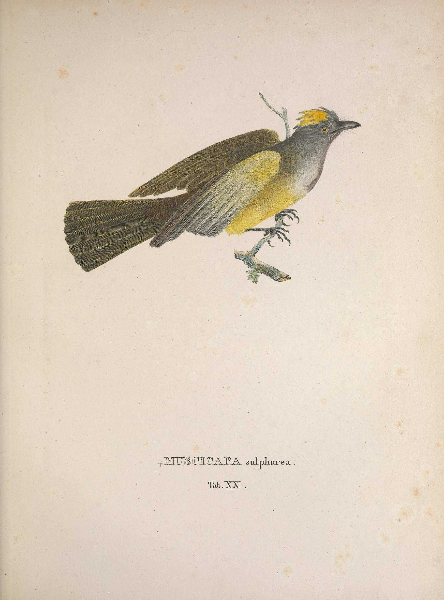 Avium species novae, quas in itinere per Brasiliam annis MDCCCXVII-MDCCCXX /. Monachii :Typis Franc. Seraph. Hübschmanni,1824-1825..